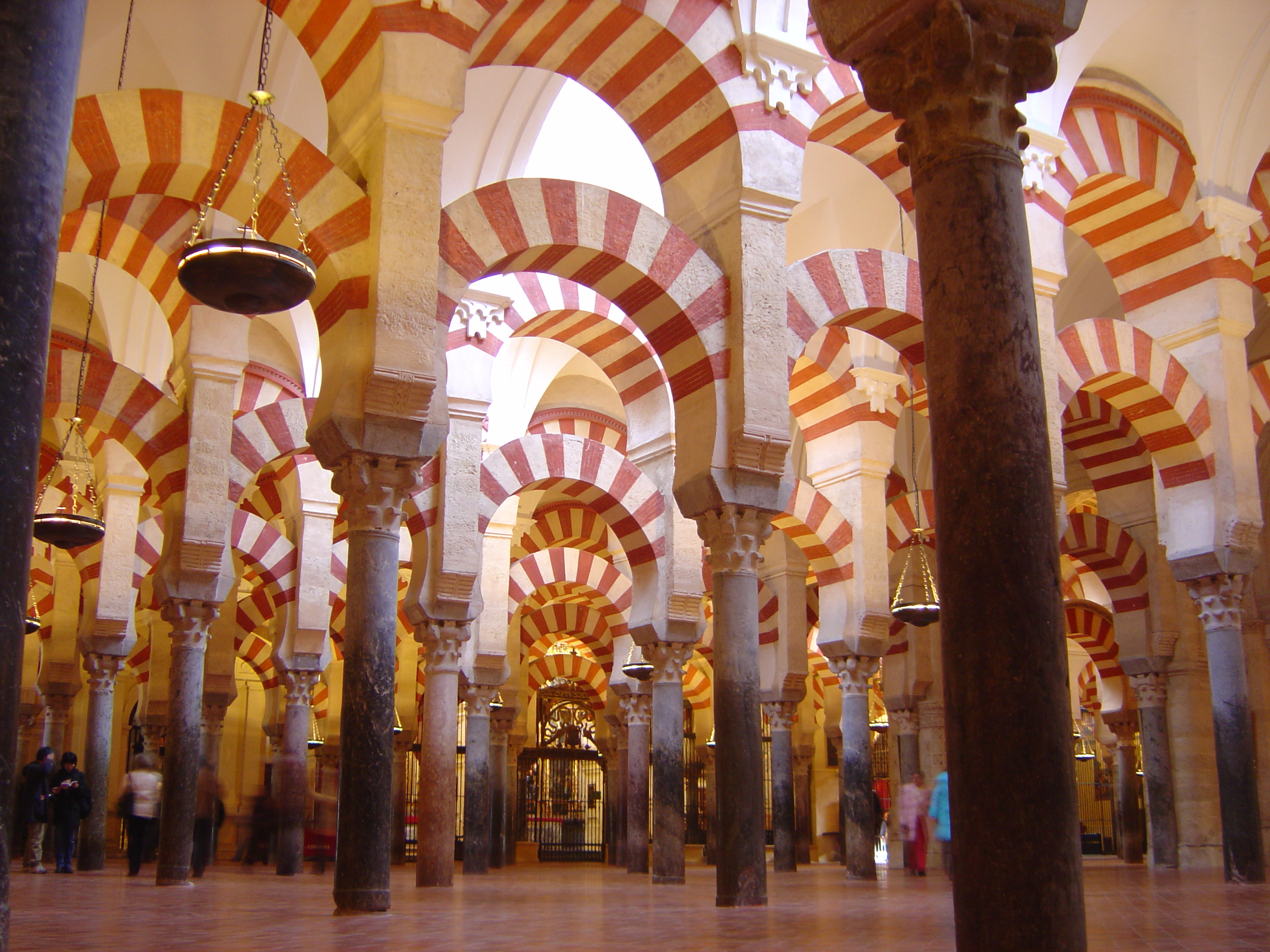 Church in Cordoba, Spain (inside)